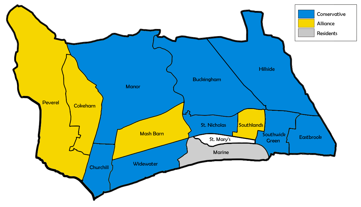 Ward map of Adur council with political colouring for the 1982 election.